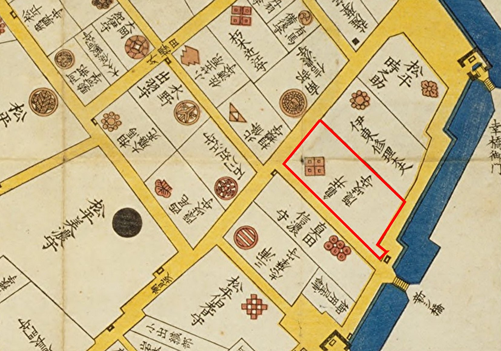 REsidence of Kamei clan at Edo